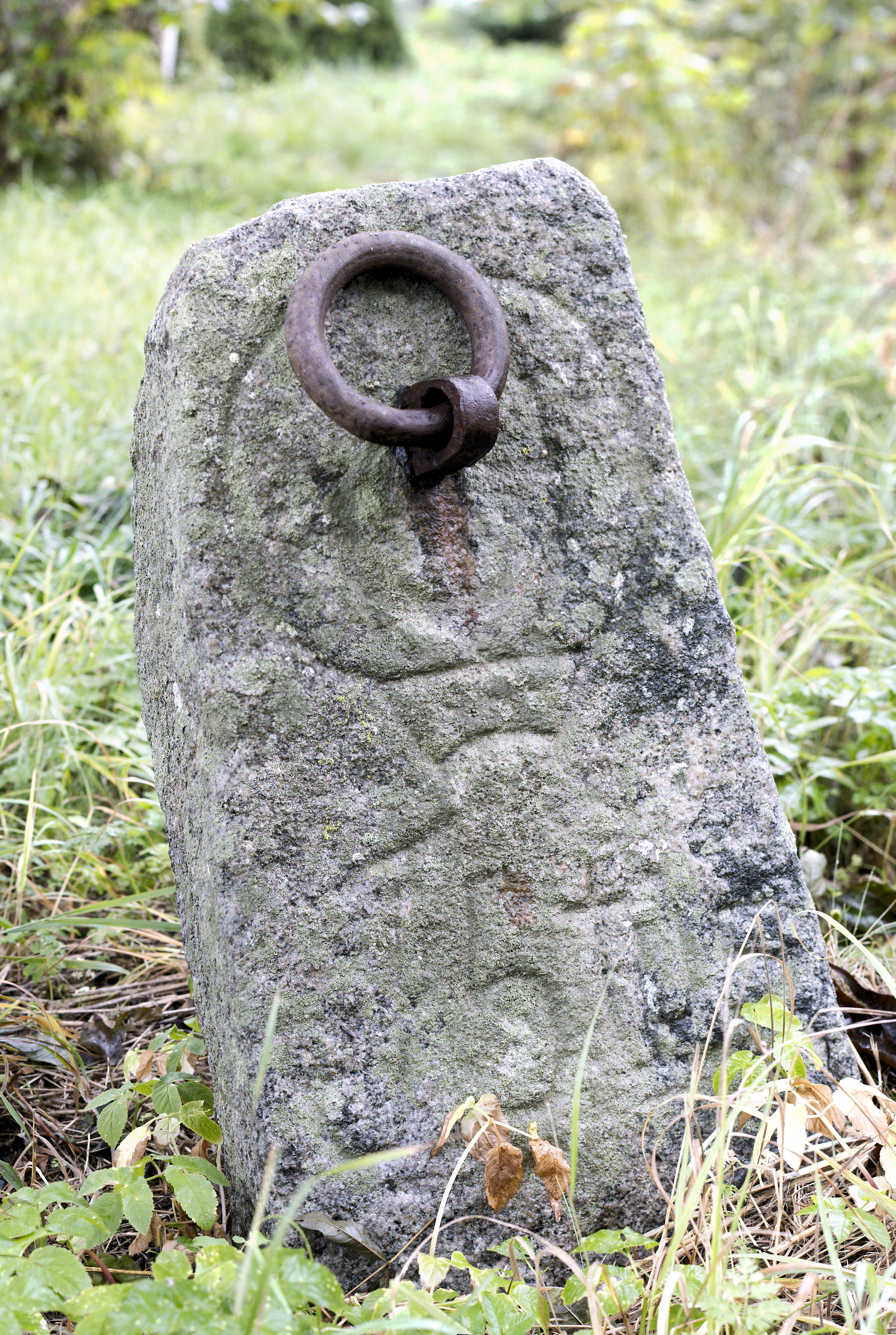 Vildtbanesten were used to mark the boundaries of vildtbaner, the Danish equivalent of royal forests or chases.